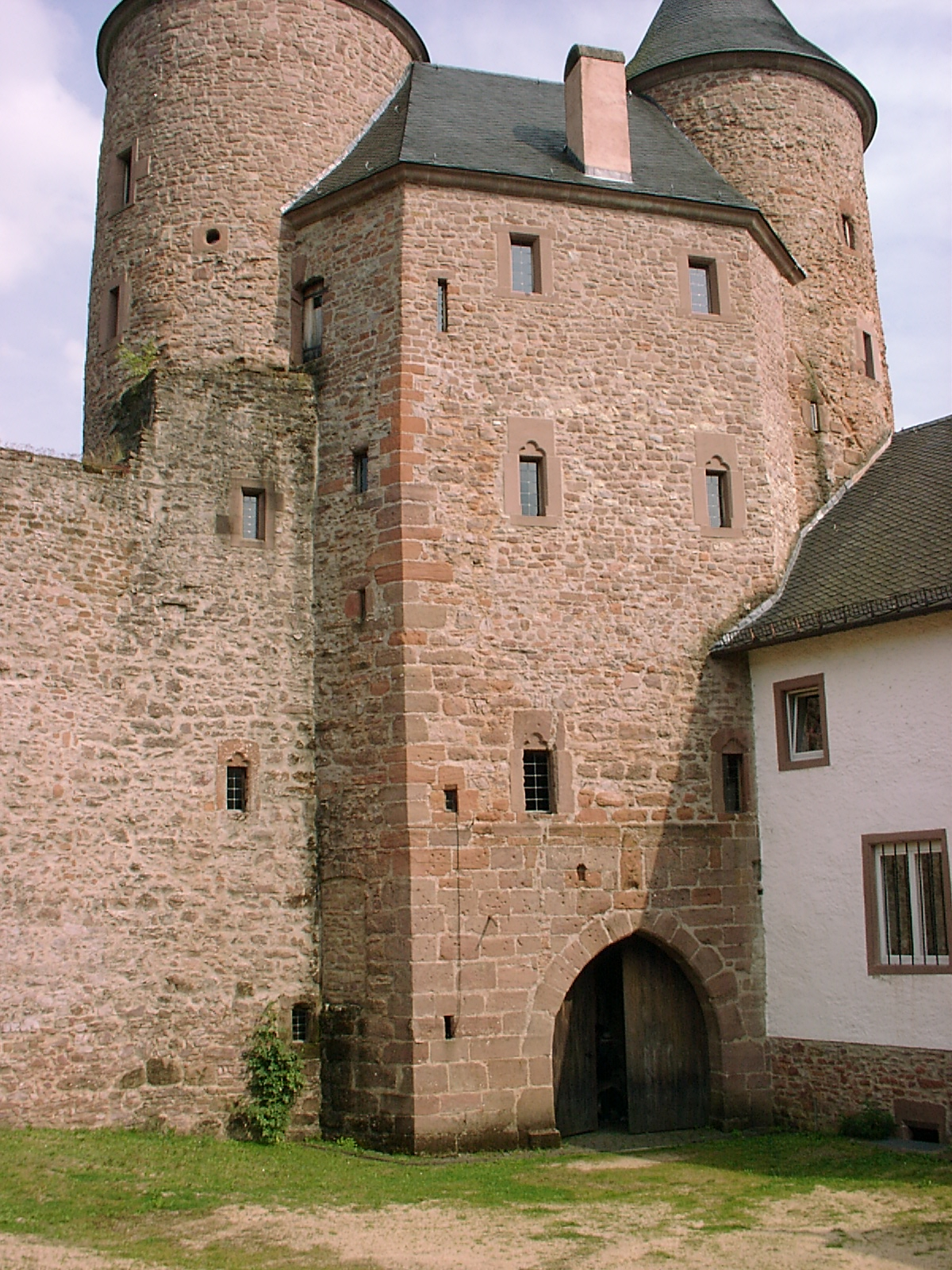 Backside of the towers of the Bertradaburg in Mürlenbach, Germany